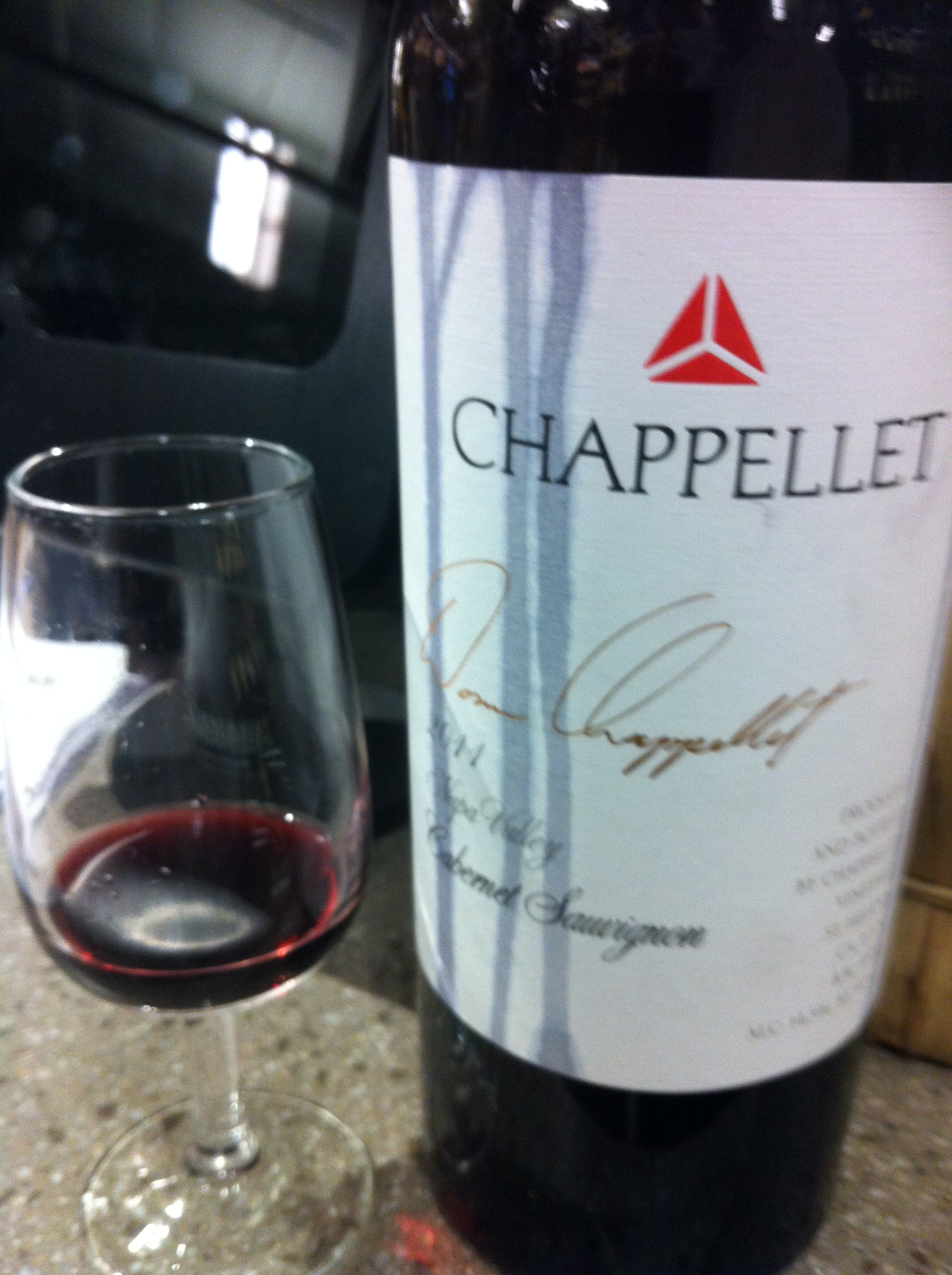 California Cabernet Sauvignon from the Napa Valley